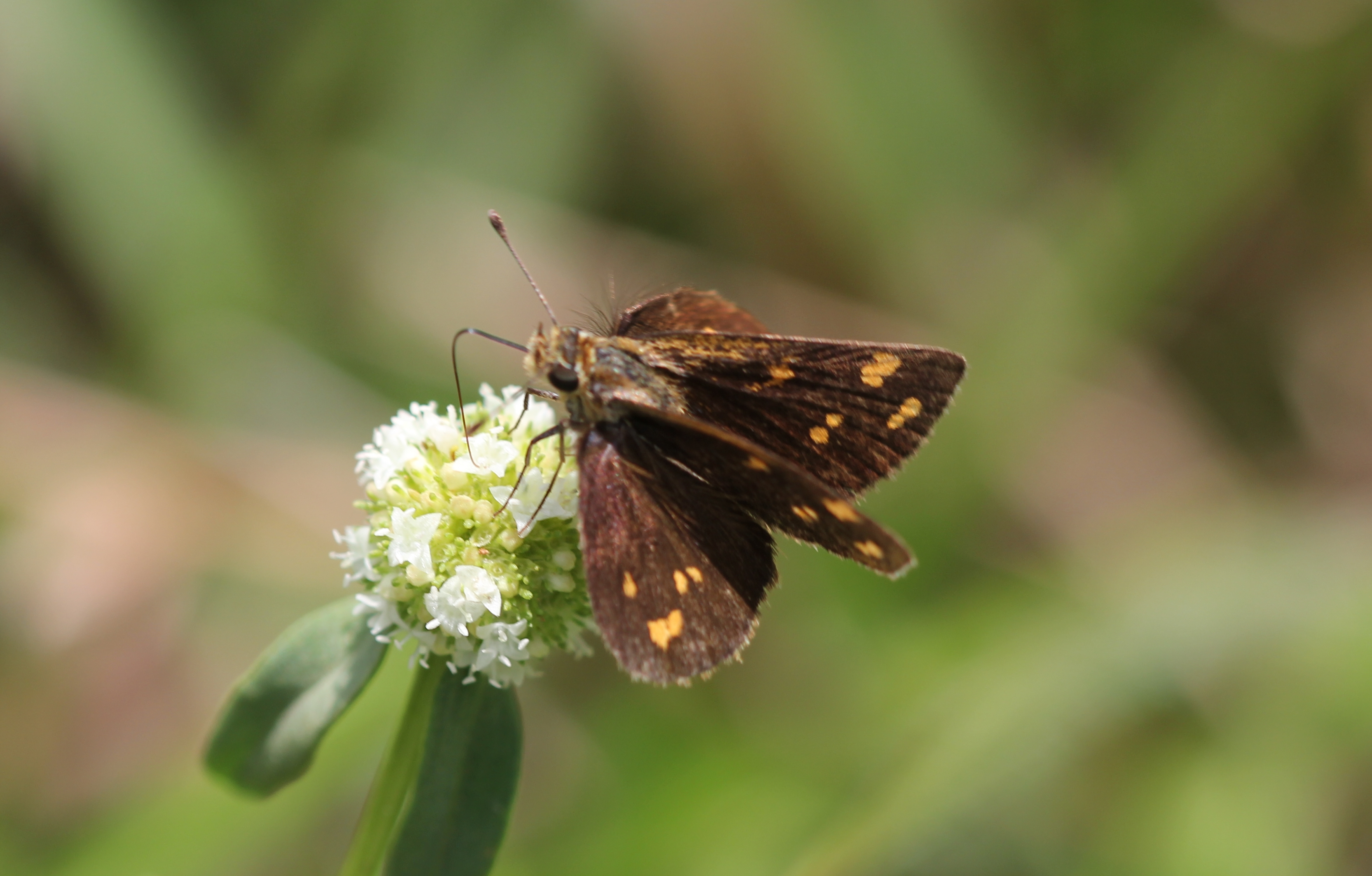 shot at kudremukha national park